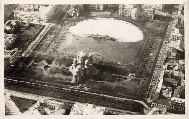 Exactly what it says in the title